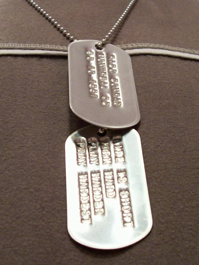 A picture I took of myself wearing dog tags I bought, custom-made in an Army Surplus Store in Montreal.